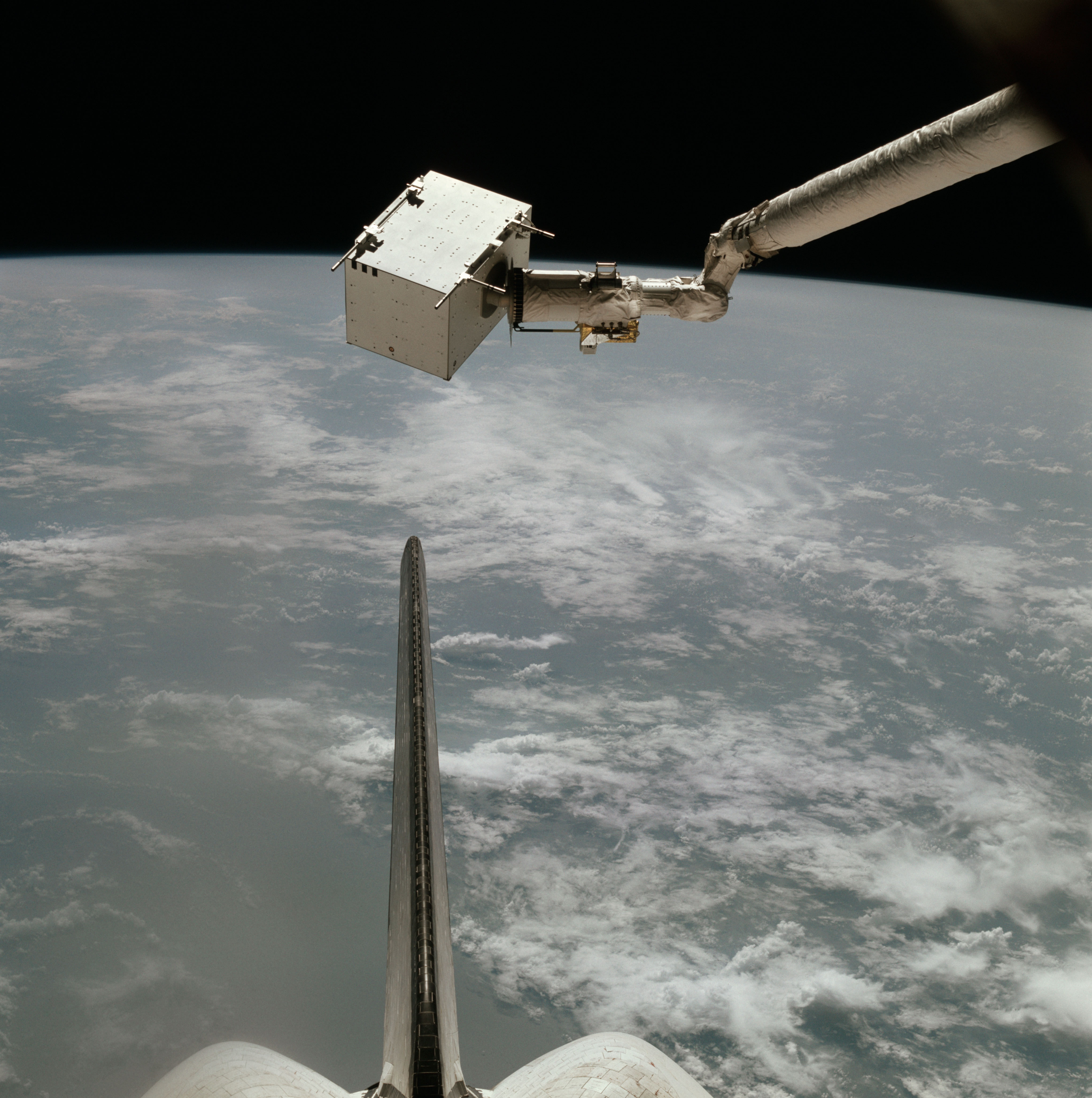 View of the Space Shuttle's RMS grappling the Induced Environment Contaminant Monitor (IECM) experiment. The North Atlantic Ocean southeast of the Bahamas is in the background as Columbia's remote manipulator system (RMS) arm and end effector grasp a multi-instrument monitor for detecting contaminants. The experiment is called the induced environment contaminant monitor (IECM). Below the IECM the tail of the orbiter can be seen.